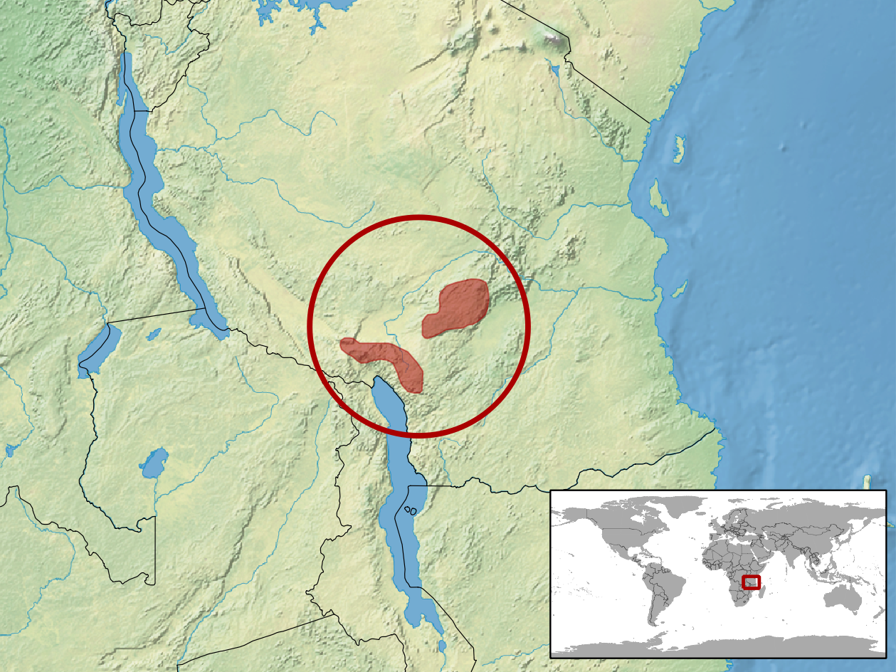 geographic distribution of Atheris barbouri (Native: Tanzania, United Republic of)